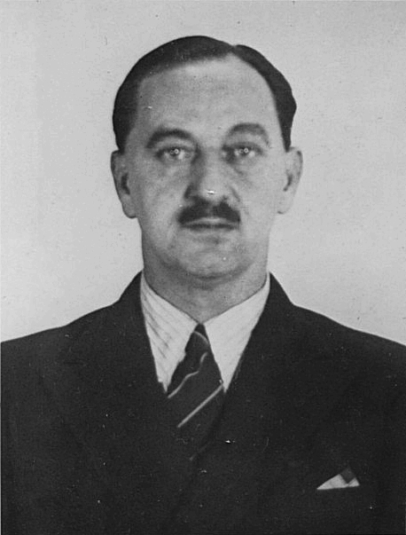 The British Major Richard Henry Stevens, who was abducted by a German raid-squad during the Venlo Incident that took place on November 9, 1939.